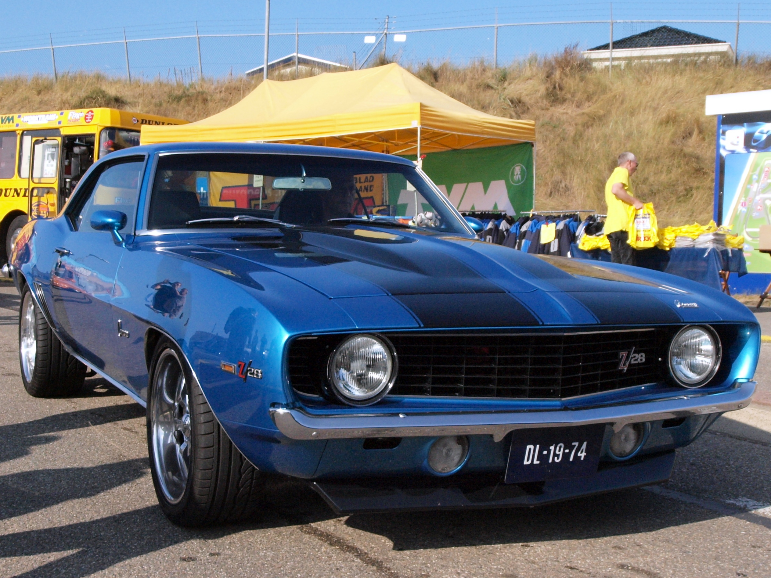 Photographed at the Nationaal Oldtimer Festival Zandvoort 2009, The Netherlands. OLYMPUS DIGITAL CAMERA